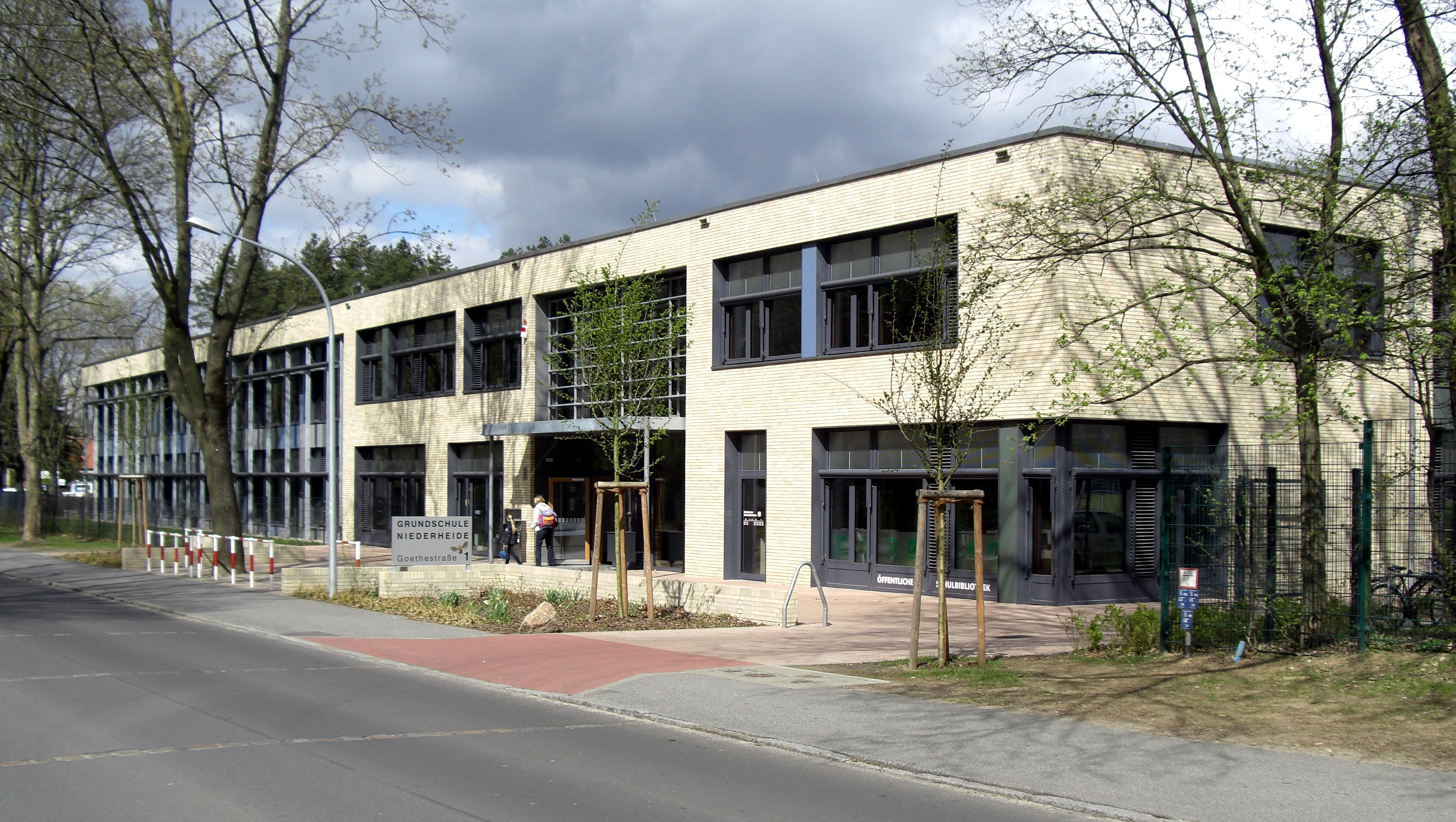 Grundschule Niederheide